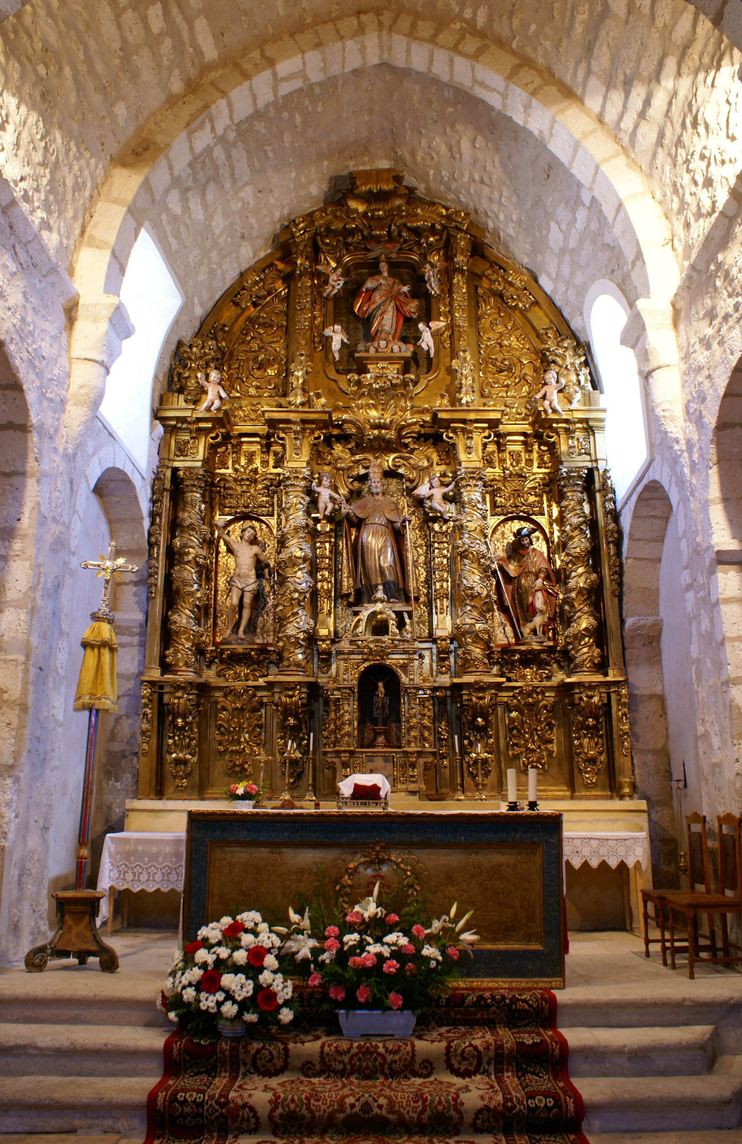 Altarpiece in St. Peter's church of Dehesa de Cuéllar, Segovia, Spain.